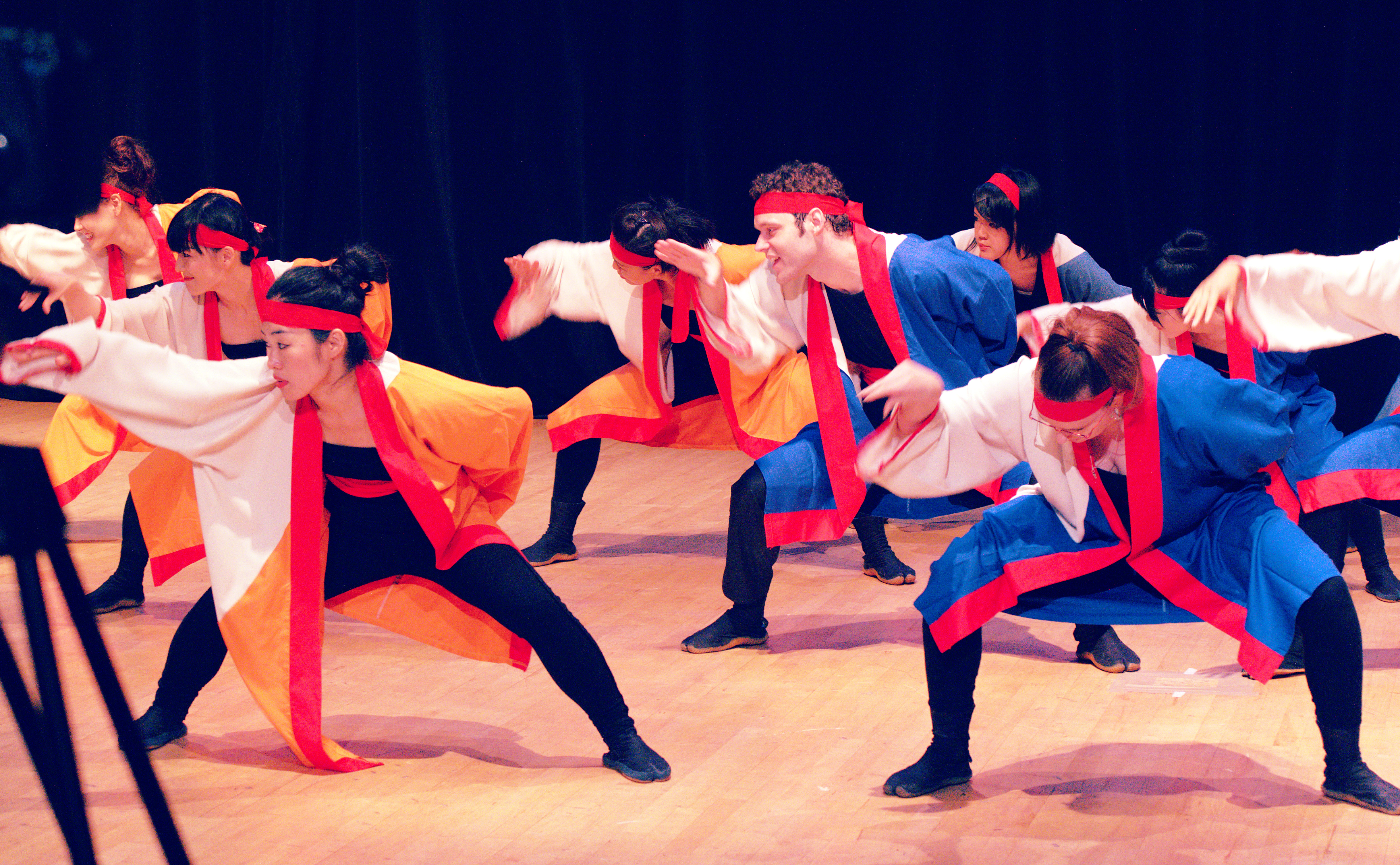 Soran Bushi (ソーラン節) at our video shoot at the JCCC.